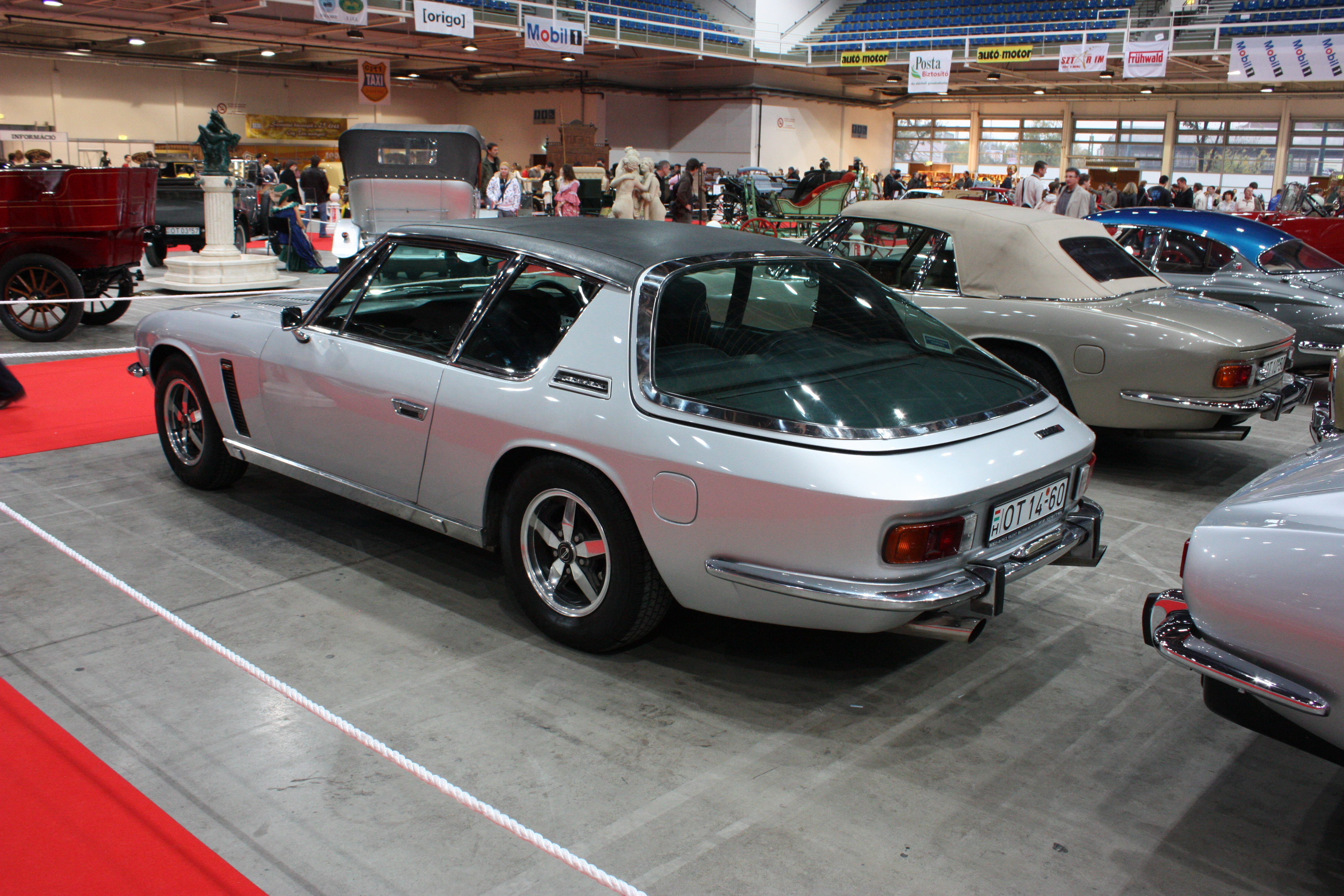 Jensen Interceptor Mk-III